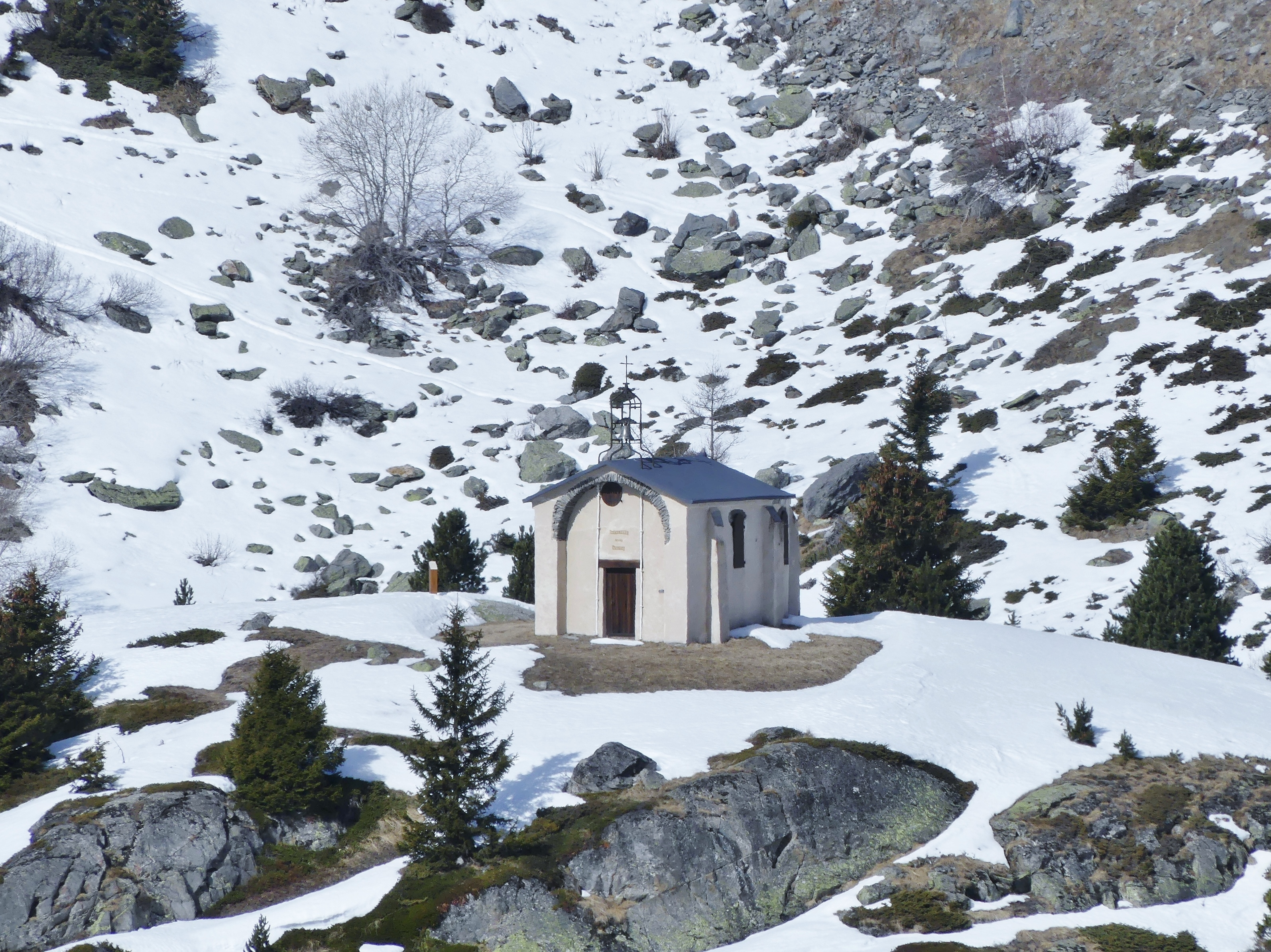 Notre-Dame des Anges chapel, situated on the heights of Orelle and here seen from the 3 Vallées Express gondola lift leading to Orelle and Val Thorens ski slopes, in Savoie, France.